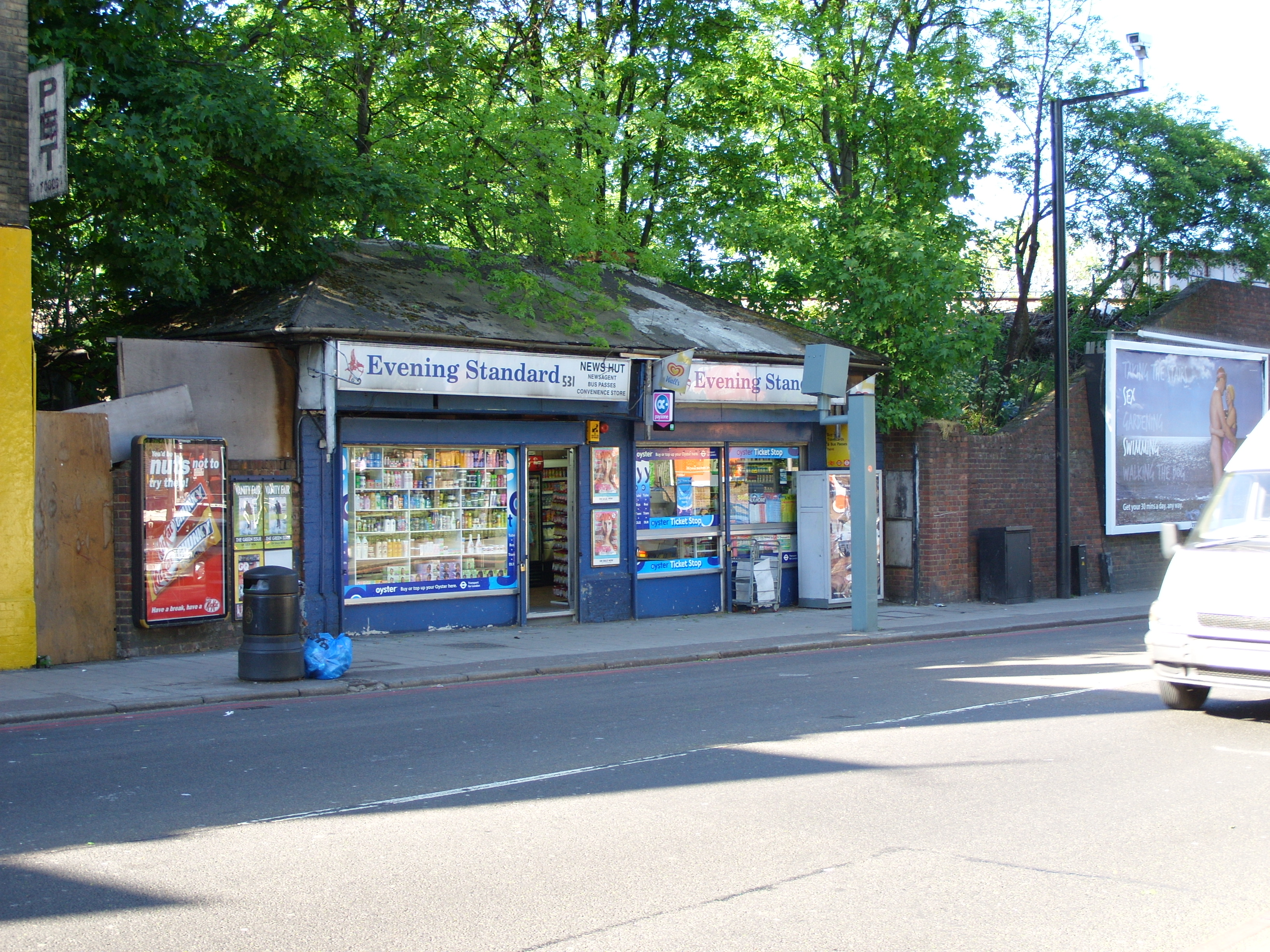 Former St Anns Road railway station, London N15